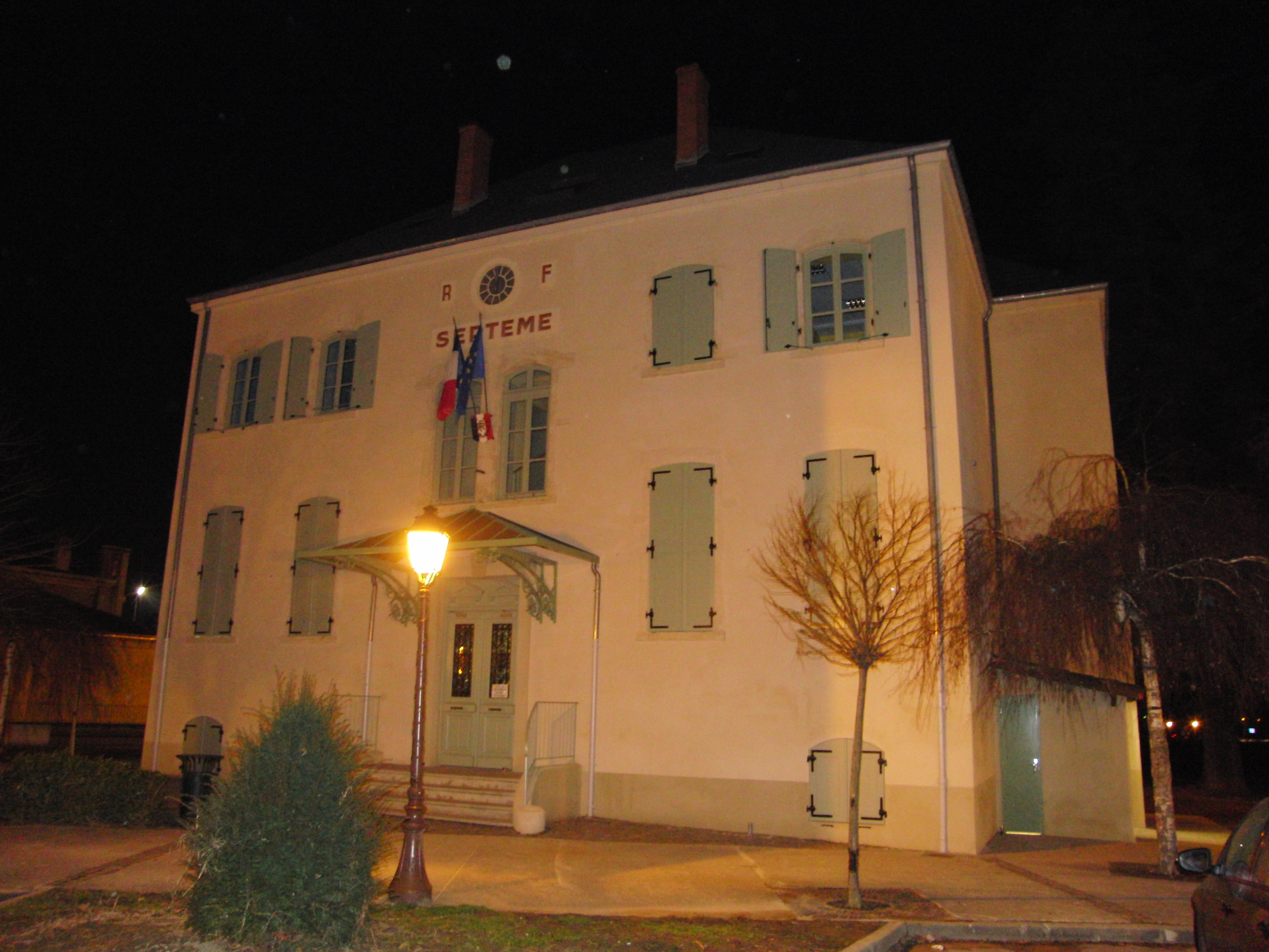 Septème city hall, at night, Isère, France